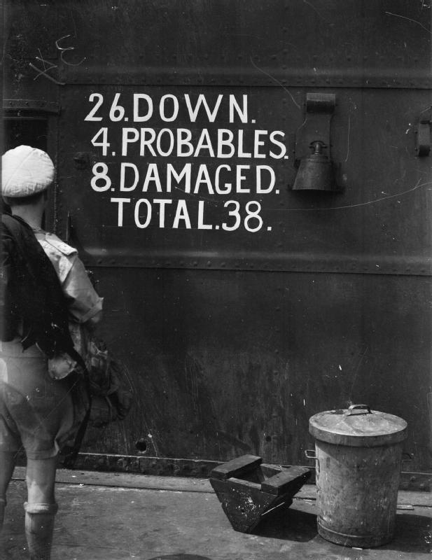 The bombing of HMS INDOMITABLE: The score-board for the successes of HMS INDOMITABLE's air group painted on the island. INDOMITABLE's fighters claimed to have shot down 38 Axis aircraft.